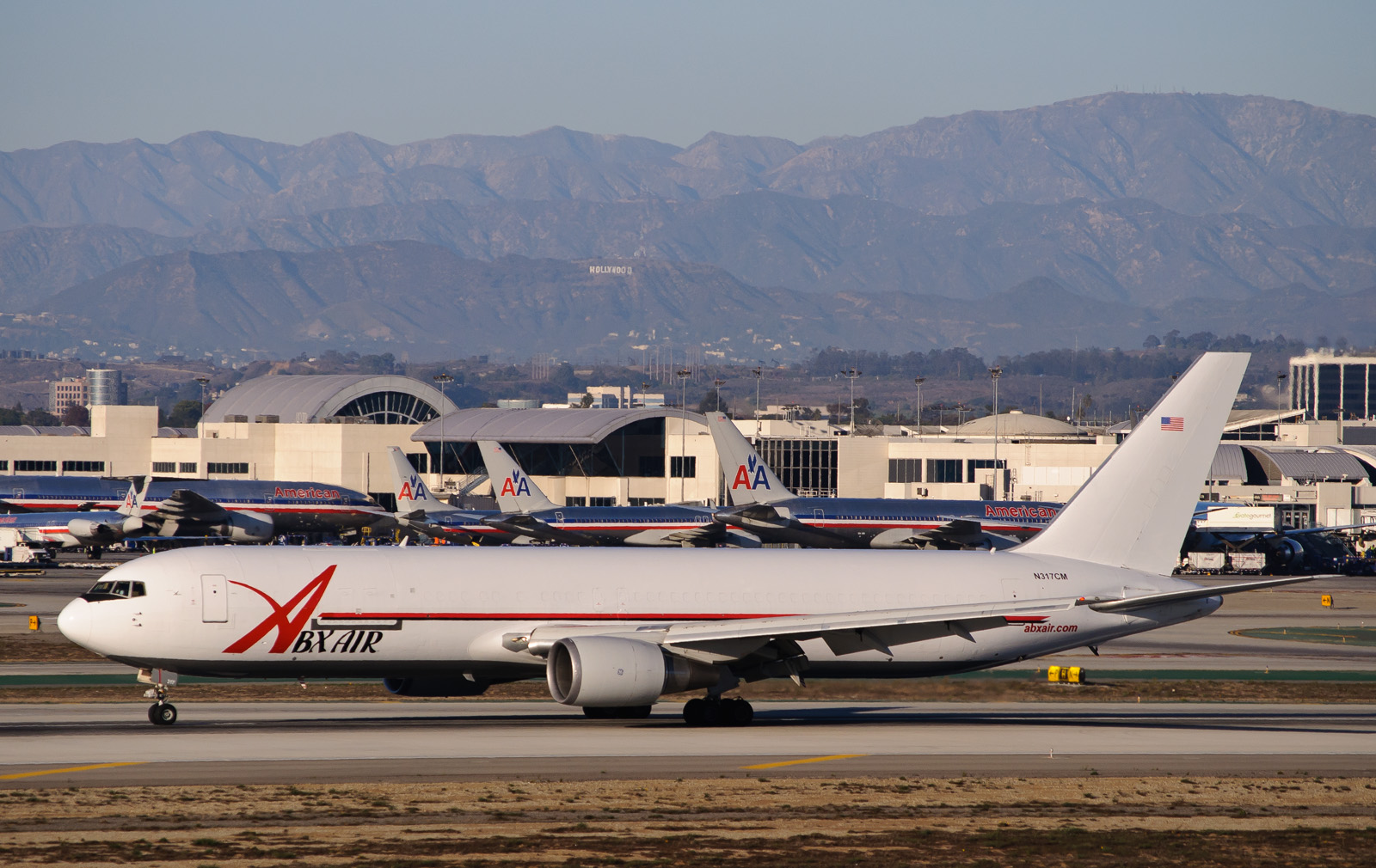 ABX Air 2212 arrives from Guadalajara. This was originally a passenger aircraft built in 1988 for QANTAS, serving under registration VH-OGC until 2010 when it was stored in Victorville. Cargo Aircraft Management performed freighter conversion in March 2012, and leased the aircraft to ABX Air. N317CM, Boeing 767-300ER (BDSF)